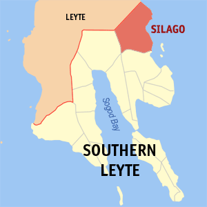 Map of Southern Leyte showing the location of Silago